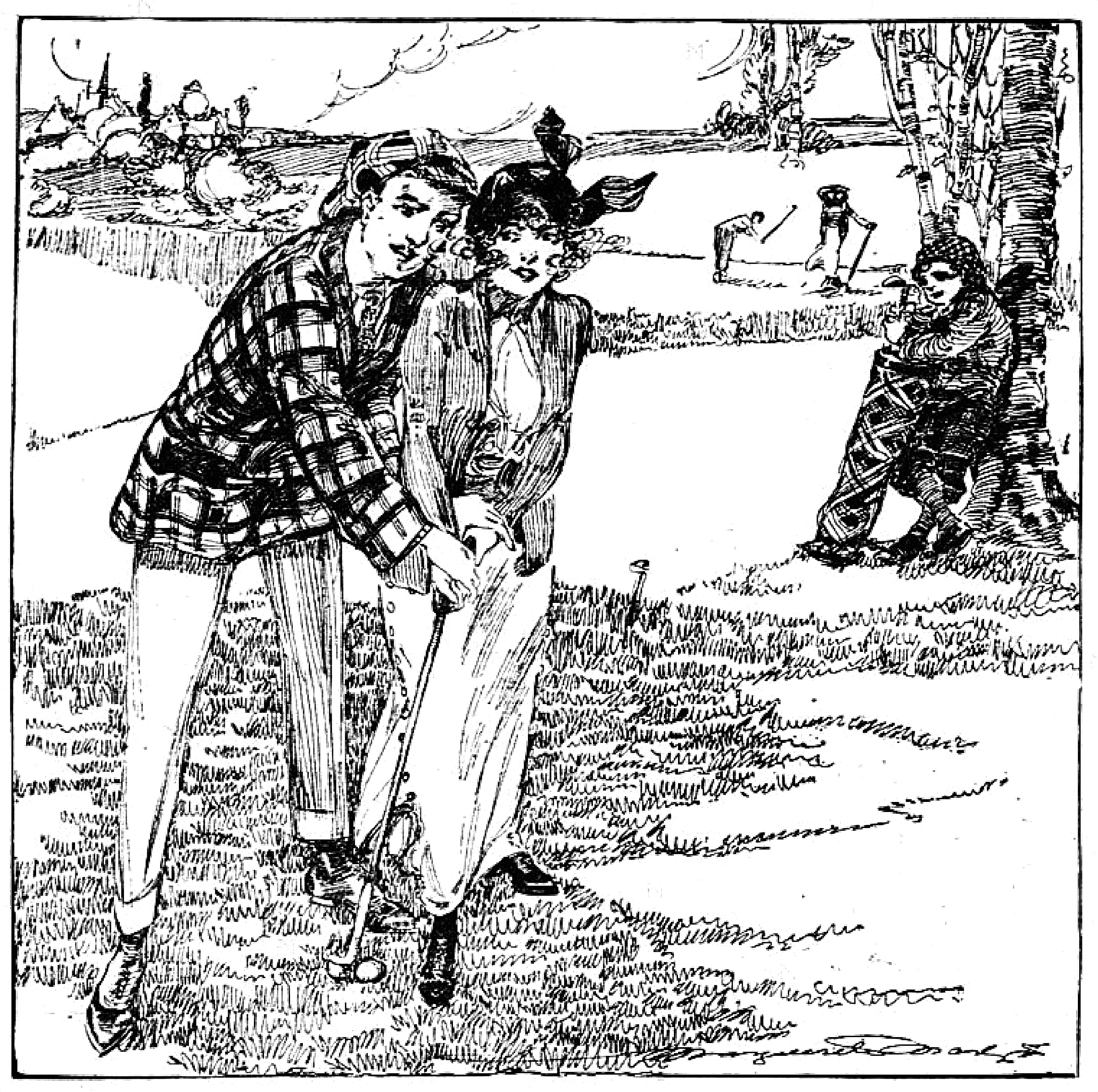 Imaginative drawing of the Forest Park Golf Course, St. Louis, showing a man teaching a woman how to hold a golf club while a caddy lounges against a tree. Another couple is on the green behind them.